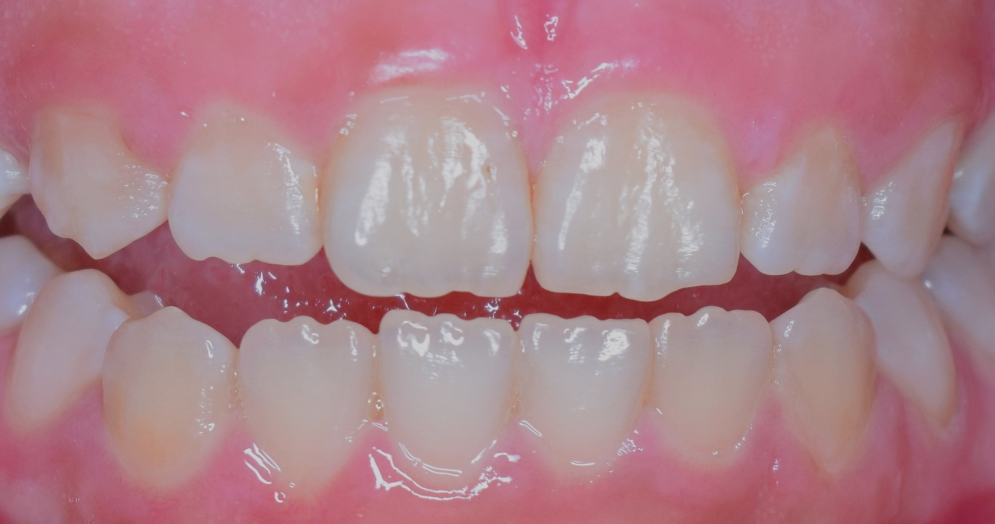 Mamelons in the anterior teeth of a 14 year old patient with an open bite